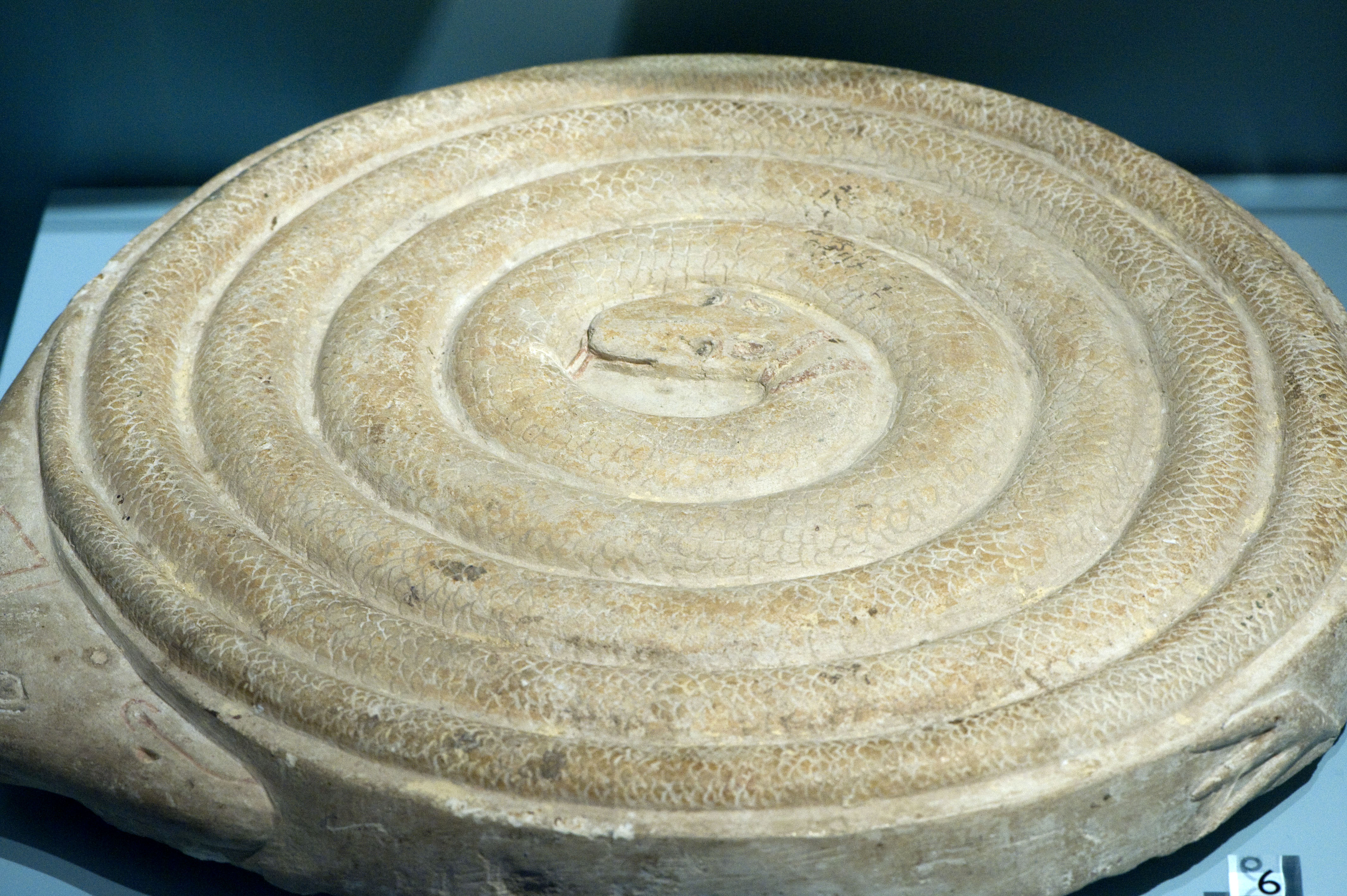 old Egyptian serpent game